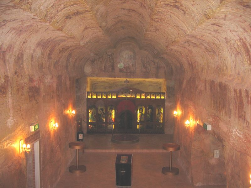 Australian Serbian church in desert interior